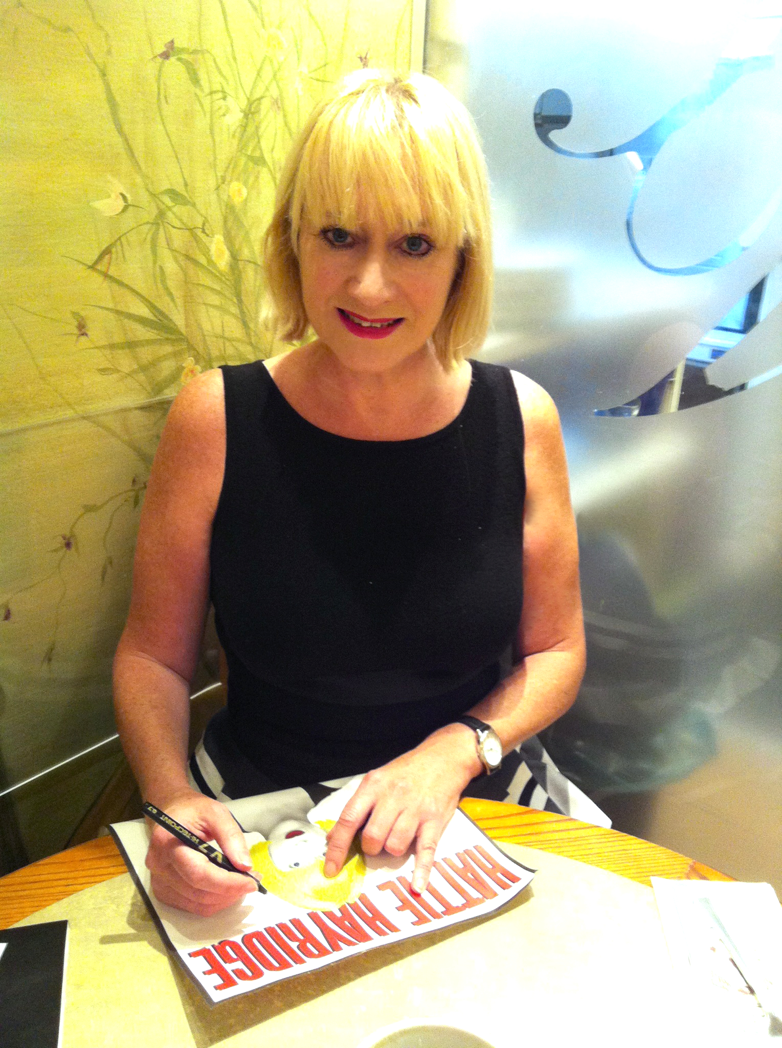 Hattie Hayridge signing her poster.